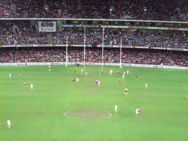 AFL Match